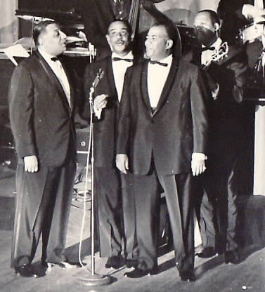 The Mills Brothers: Herbert Mills, Donald Mills, and Harry Mills, with (Allen) Norman Brown on guitar Mills Brothers